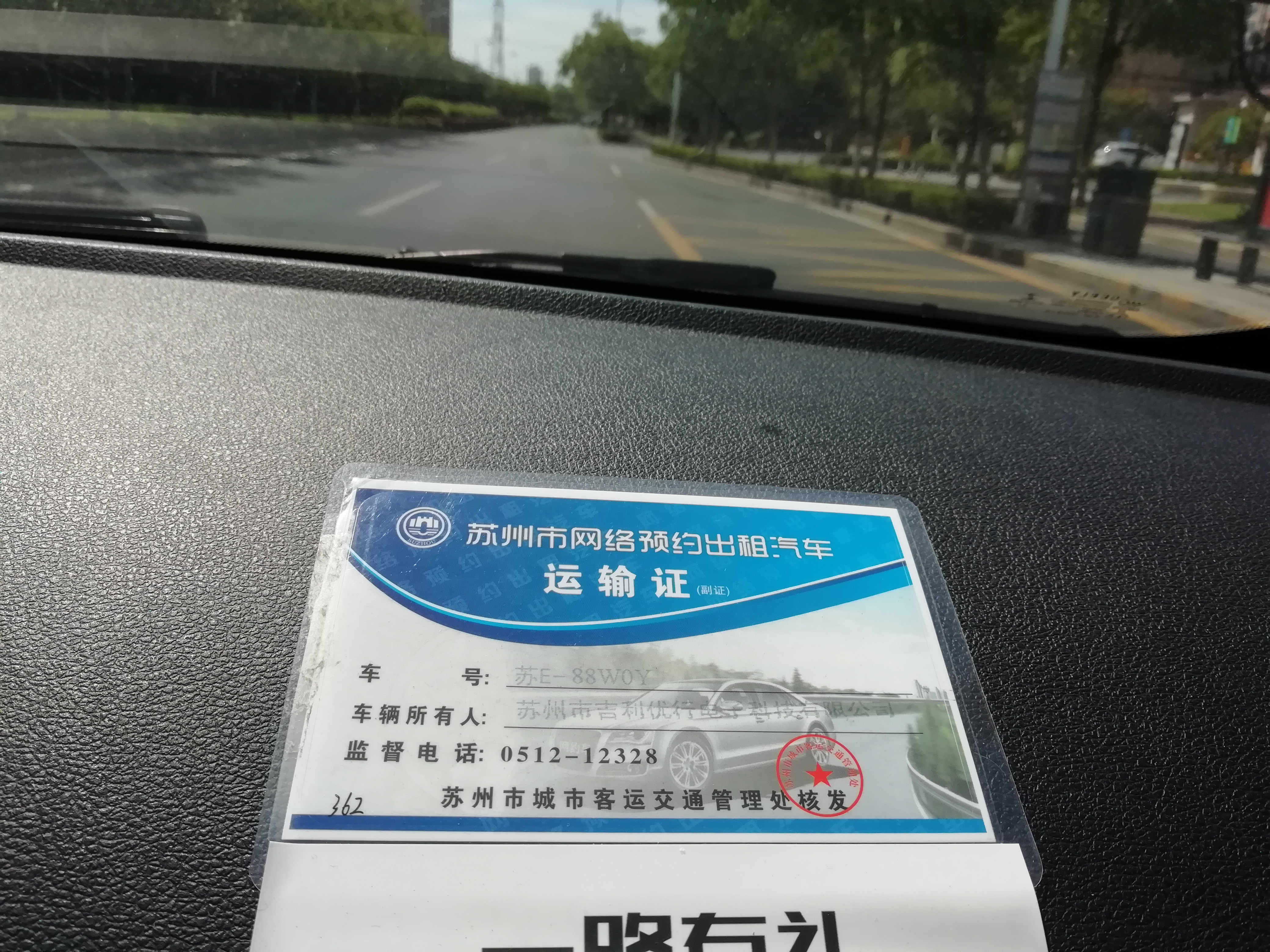 A Operating Permit of Real-time ridesharing service, issued by Urban Passenger Transport Management Office of Suzhou 中文（中国大陆）: 苏州市城市客运交通管理处签发的网约车运输许可证